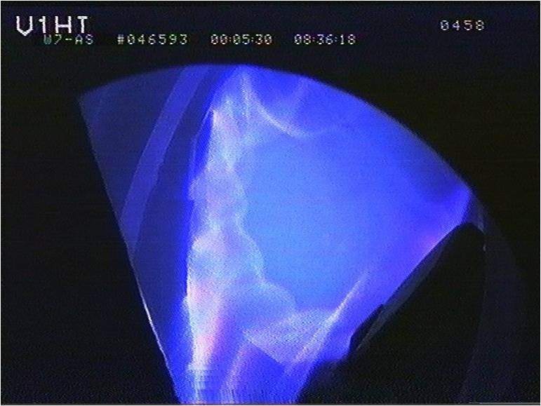 Snapshot from a video camera viewing through a vacuum window toroidally, i.e along the plasma of W7-AS. The "cold" edge of the plasma appears bright showing so-called island structures which touch the graphite tiles of the first wall on the left side of the window. Radiation from the hot plasma core (located at about the right side of the illuminated window, diametre about 30cm) is mainly in the soft X-ray range of the spectrum and thus invisible for the camera. The plasma core therefor appears as diffusely transparent.